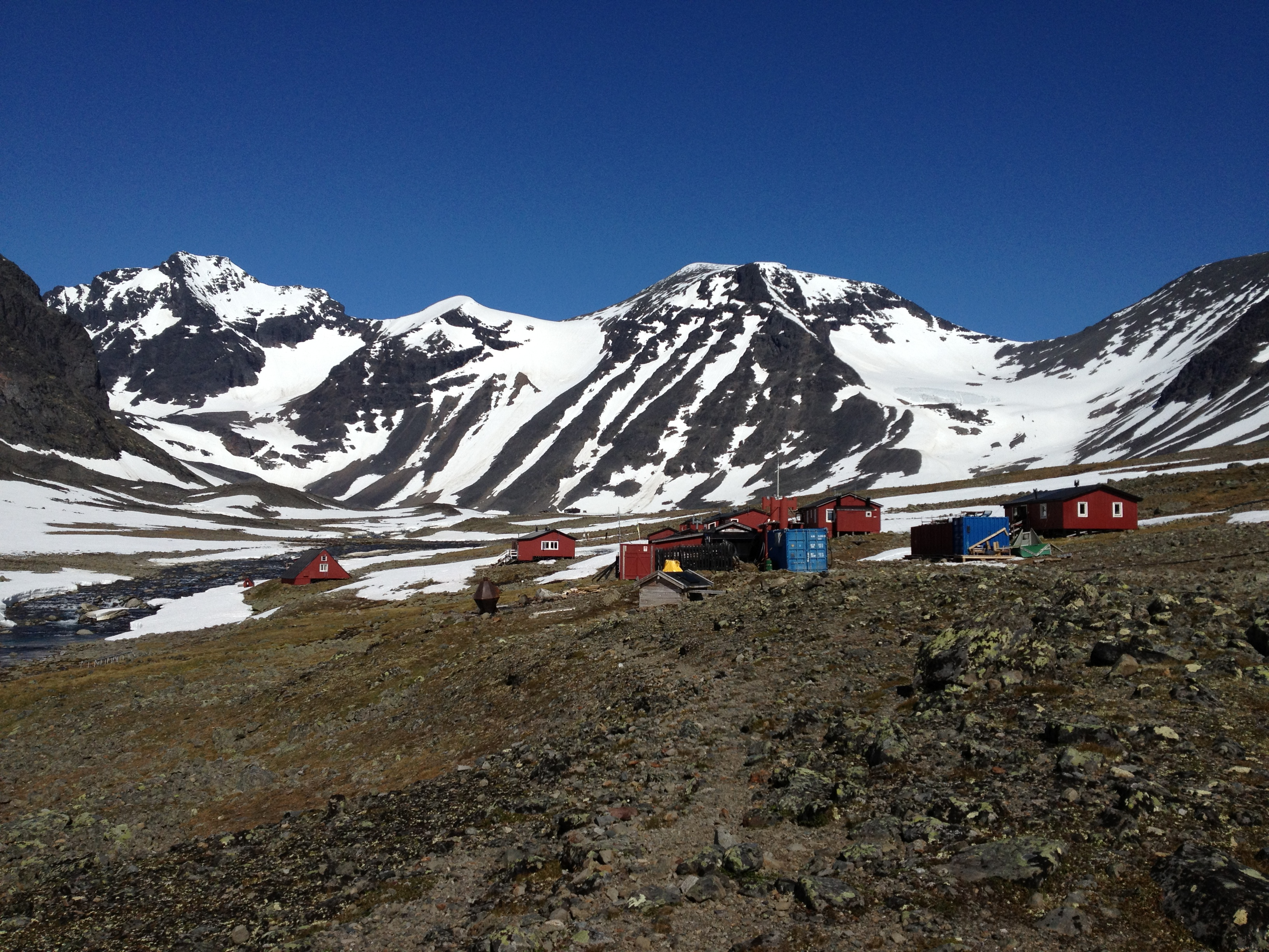 Tarfala Research Station (Swed. Tarfala Forskningsstation) seen from the south.